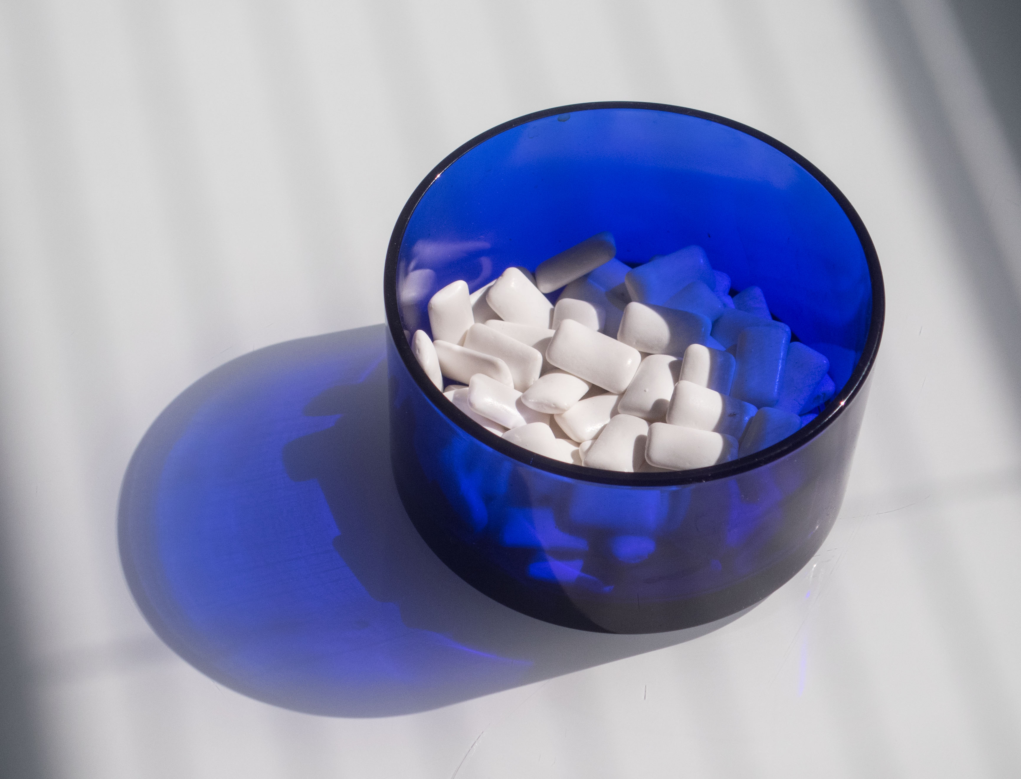 Xylitol chewing gum in a blue bowl